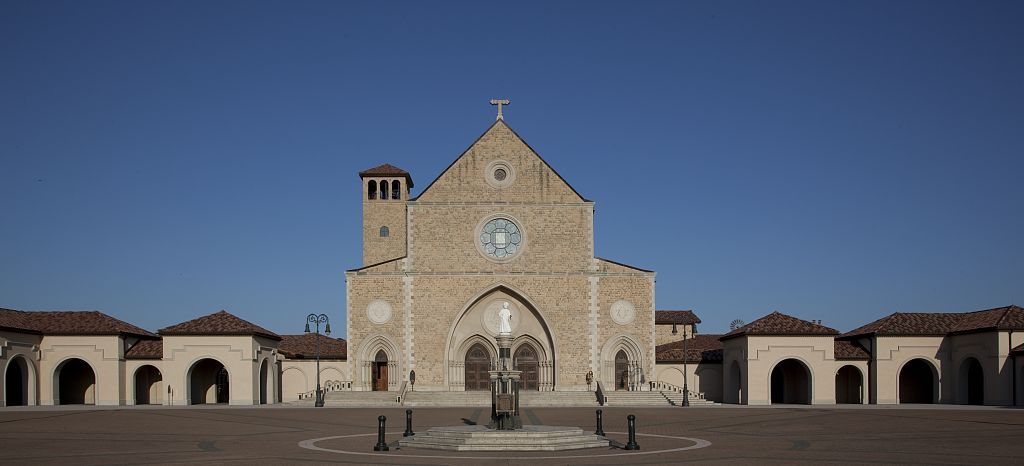 Shrine of the Most Blessed Sacrament of Our Lady of the Angels Monastery, Hanceville, Alabama